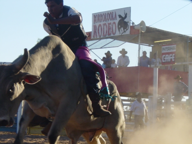 Author: Peter Nihill